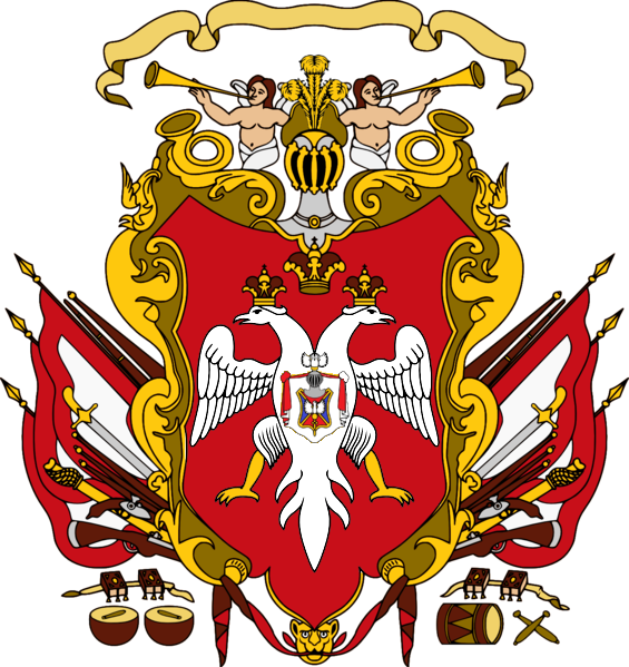 Coat of arms of Montenegro under Vladika Danilo Српски (ћирилица): Грб Црне Горе под владиком Данилом Srpski (latinica): Grb Crne Gore pod vladikom Danilom. Ovo je prva poznata verzija grba iz vremena mitropolita i vladike Danila Petrovića i čuvala se glavnom arhivu Ministarstva spoljnih poslova Rusije. Marko Dragović je sa toga originala uradio kopiju - crtež, koji se danas čuva u njegovoj zaostavštini. Na kopiji je bilješka da je to "grb crnogorski predstavljen Rusiji od vladike Danila Petrovića 1715. godine" (Jovan B. Markuš "Grbovi, zastave i himne u istoriji Crne Gore - Svetigora-Cetinje 2007).